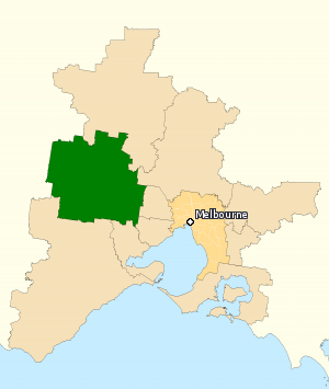 Incorporates or developed using Administrative Boundaries ©PSMA Australia Limited licensed by the Commonwealth of Australia under Creative Commons Attribution 4.0 International licence (CC BY 4.0). Derived from State and Territory Boundaries from the Australian Bureau of Statistics under Creative Commons Attribution 2.5 Australia license (CC BY 2.5 AU)